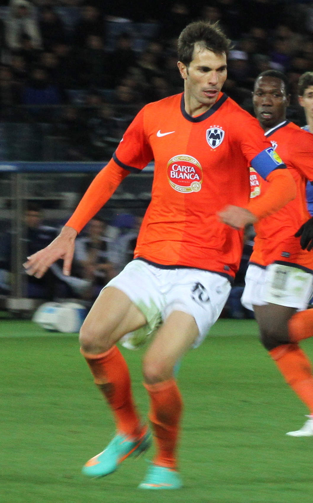 Jose Maria Basanta at 2012 Club World Cup.